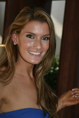 Miss Southafrica 2007 Megan Coleman in Miss World 07, Sanya, China